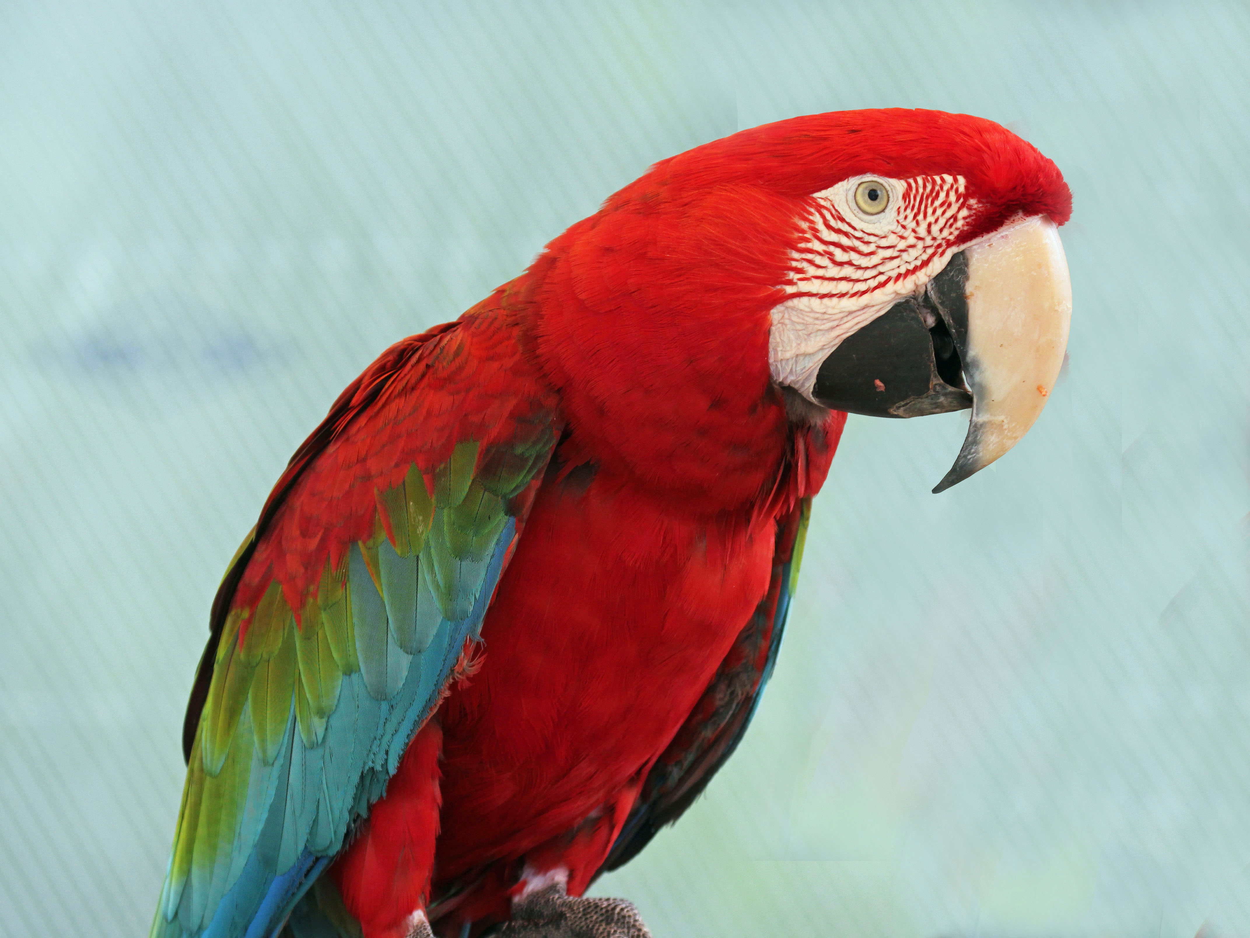 A Red-and-green Macaw (also known as the Green-winged Macaw) at Butterfly World, Florida, USA.